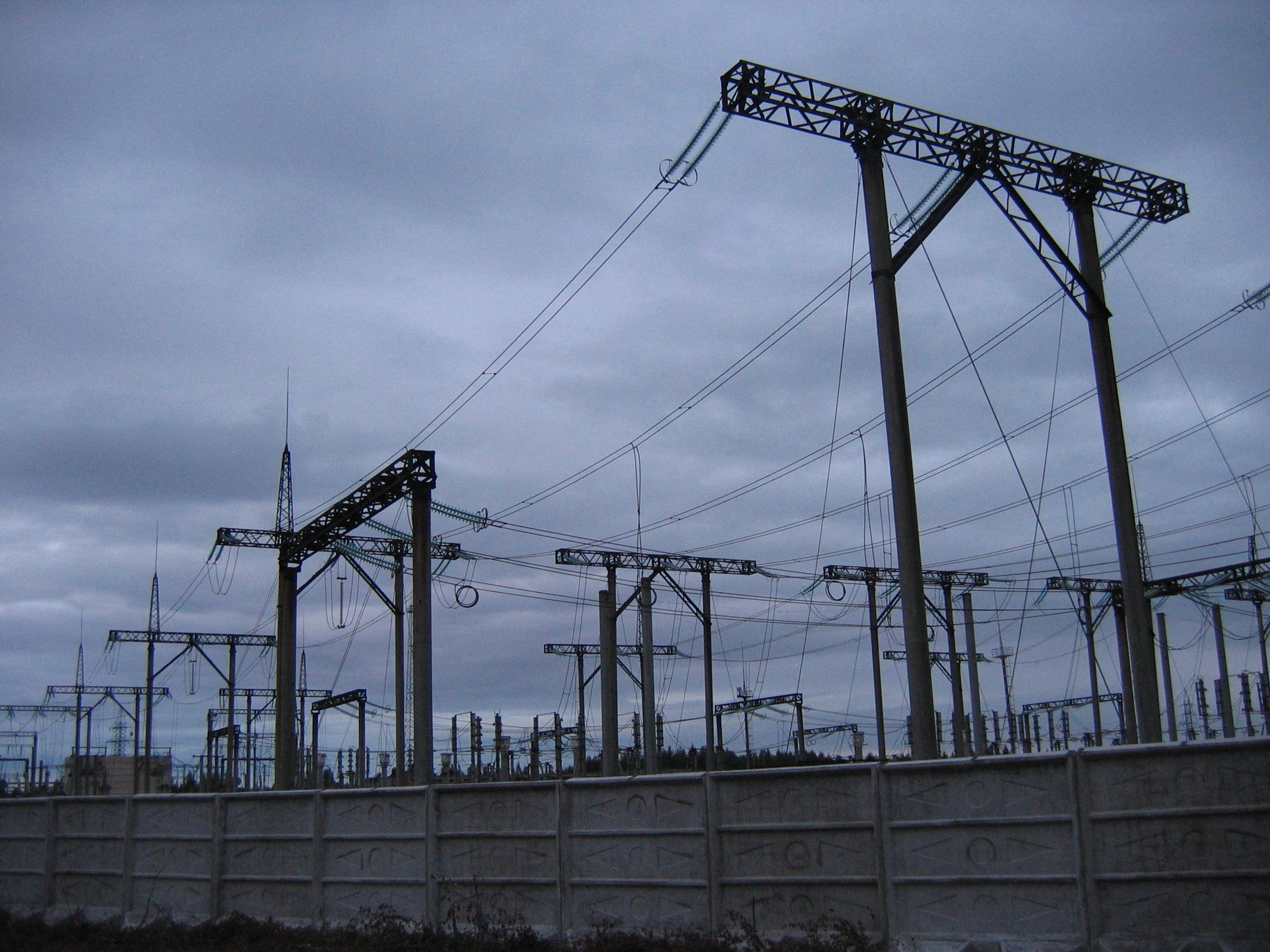 High-voltage switchgear North-West CHP power station (Saint-Petersburg, Russia)